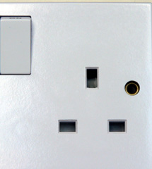 Basic BS 1363 Socket